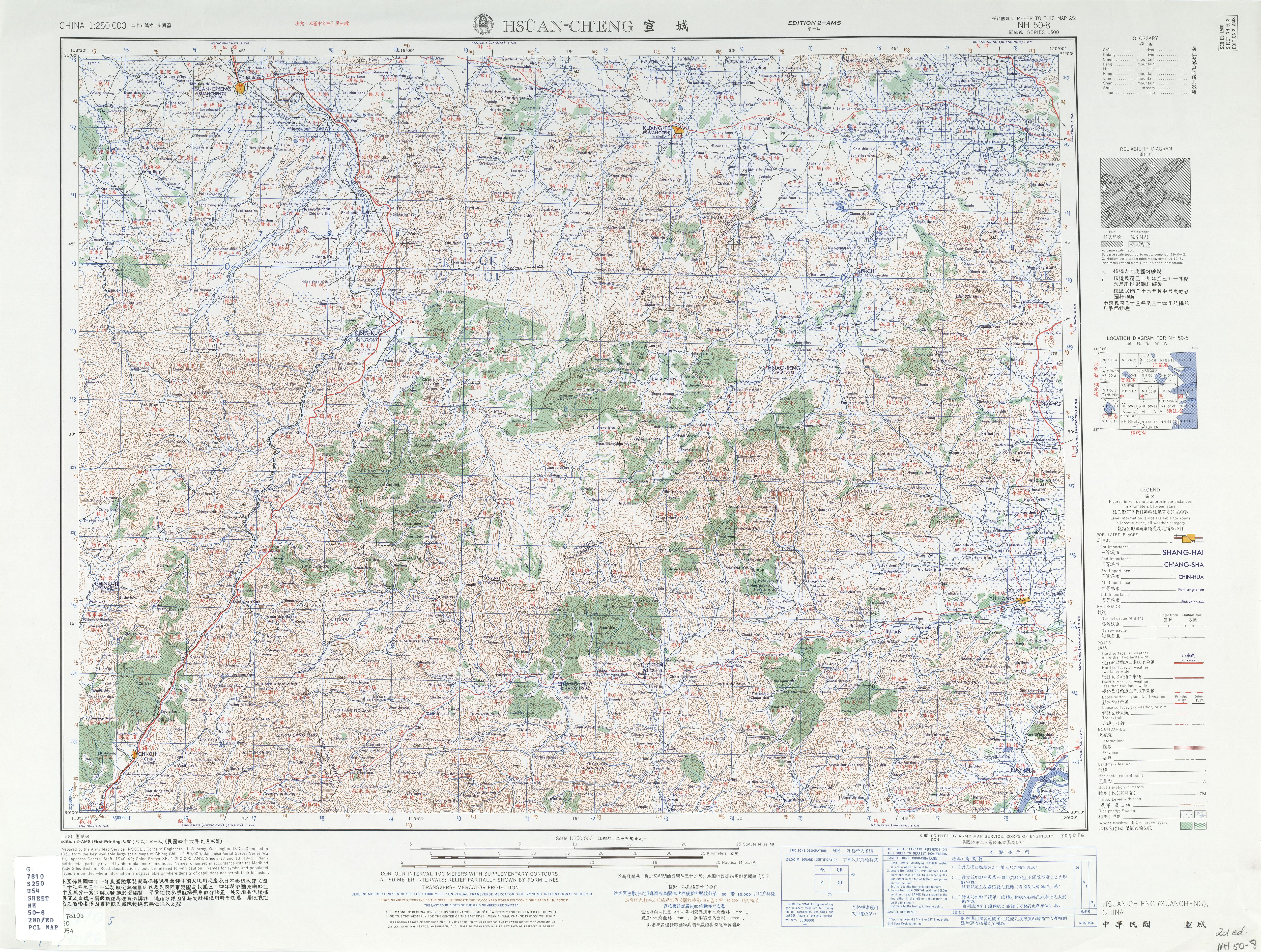 Map of Xuancheng (Hsüan-Ch'eng, Hsuancheng, 宣城), Anhui, and surroundings from the China AMS Topographic Maps series based on WWII-era surveys. All placenames are in Postal or Wade-Giles romanization, with some Chinese characters.